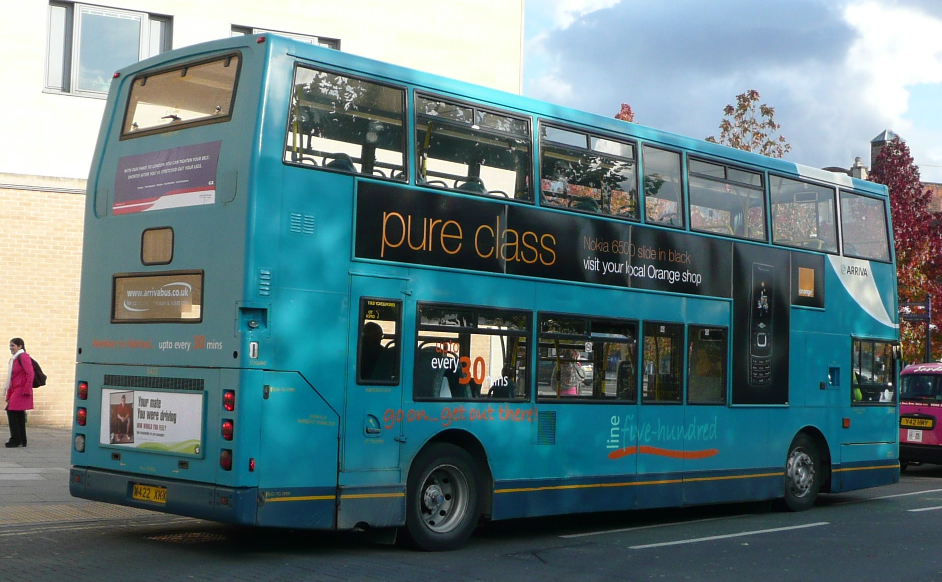 Rear quarter view of an Arriva the Shires bus on the forecourt of Oxford railway station, Oxfordshire. It is branded for route 500 but is working on route 280. The bus is a Dennis Trident 2 on an Alexander ALX400 body, fleet number 5422, registration number W422 XKX.